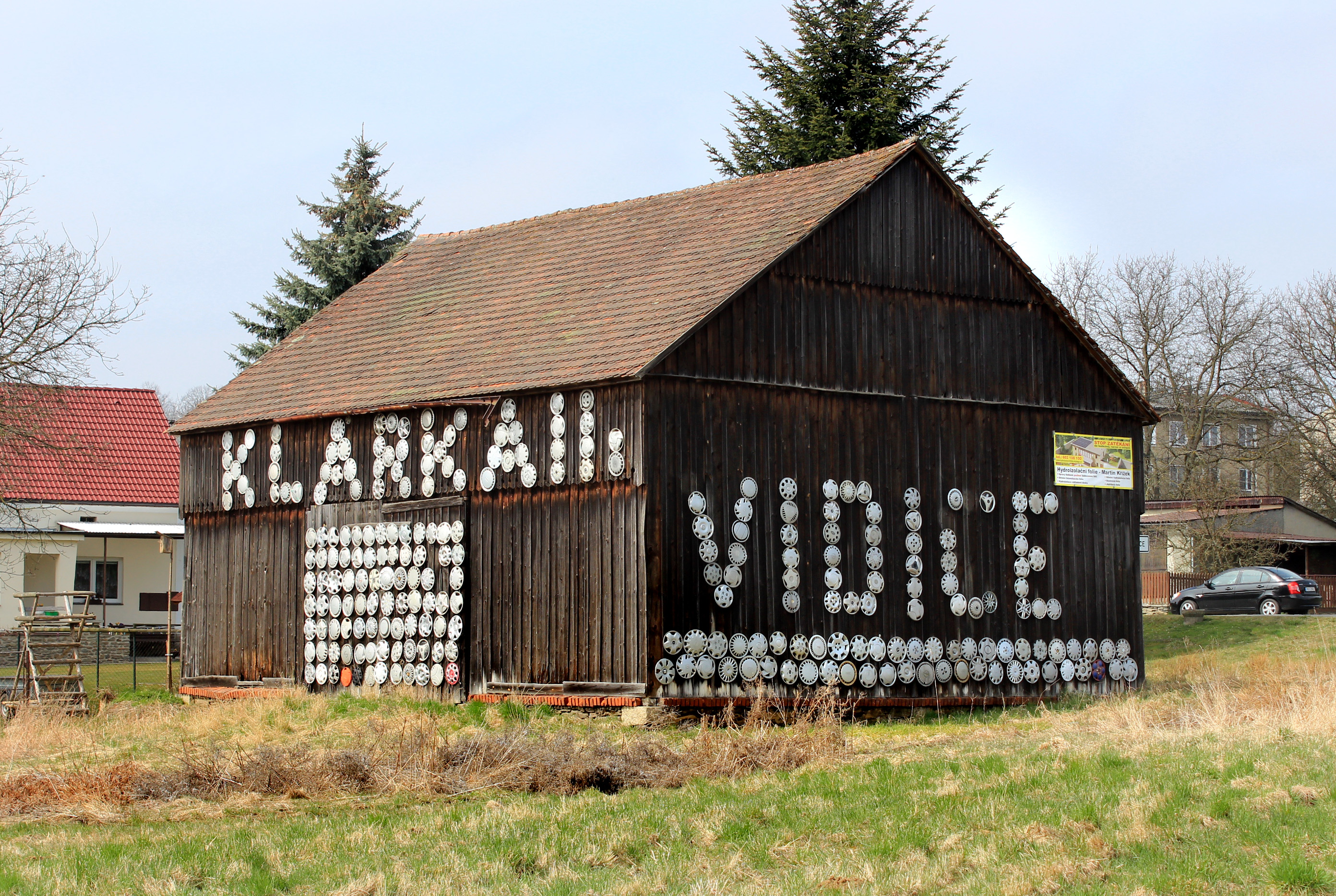 Old barn in Vidice village, Czech Republic.